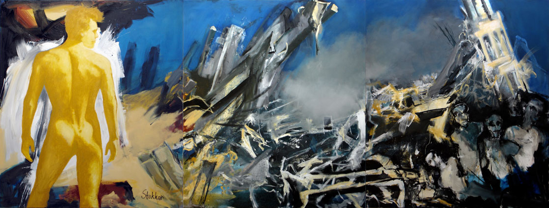 title: Orfeus or Paradise Lost. Oil on canvas, 4.20 x 1.60 m in three panels. Inspired by the September 11 2001 attacks on New York City.